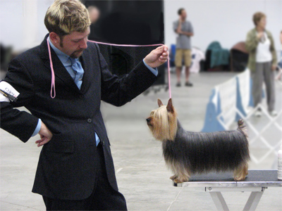 This picture was photographed by Doug Moore at the Colorado Springs shows in 2007. It's shows a Silky Terrier getting ready to be presented by its handler.